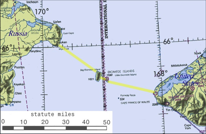 Possible routing of International Peace Bridge